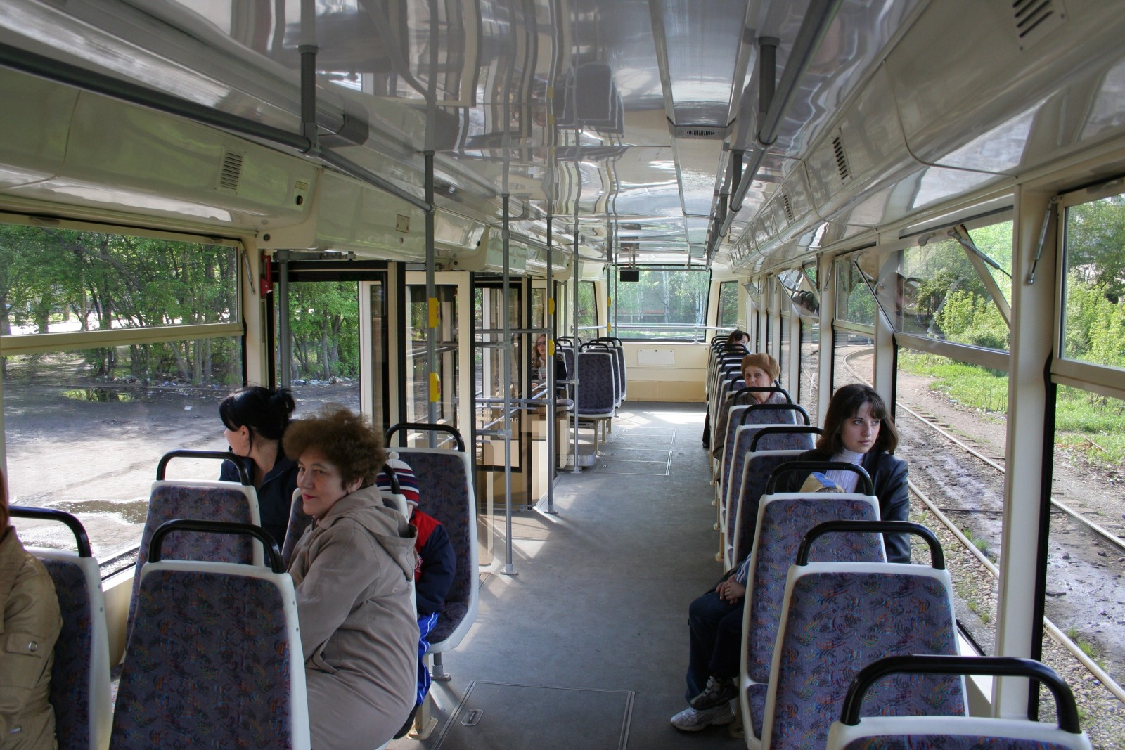 Tomsk tram KTM-19 (71-619KT) No. 322. Passenger compartment.